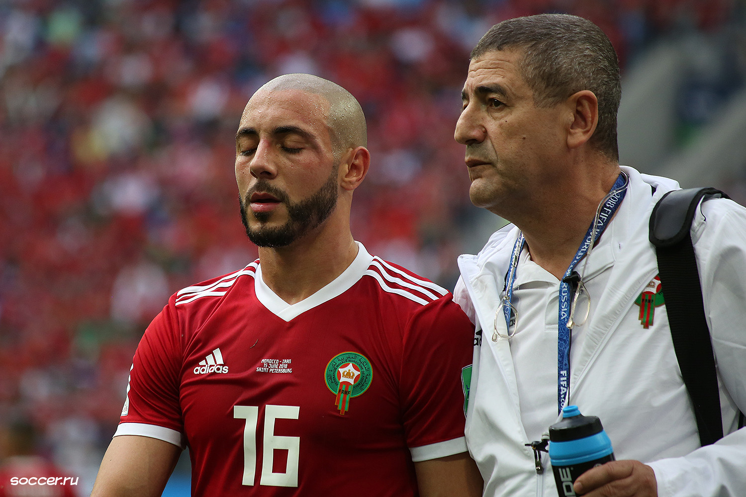 Nordin Amrabat (left) and Morocco national team doctor Abderrazak Hifti (right) Iran-Morocco match, 2018 FIFA World Cup